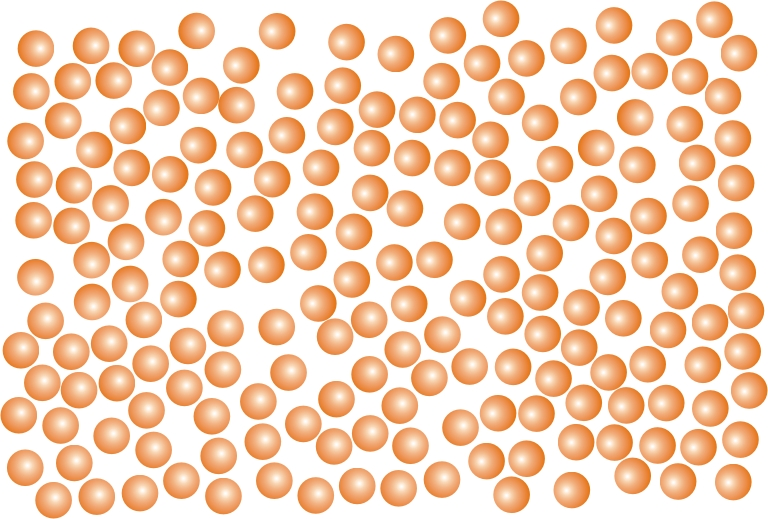 A Monodisperse Collection of objects. All objects have the same size, shape and surface characteristics.